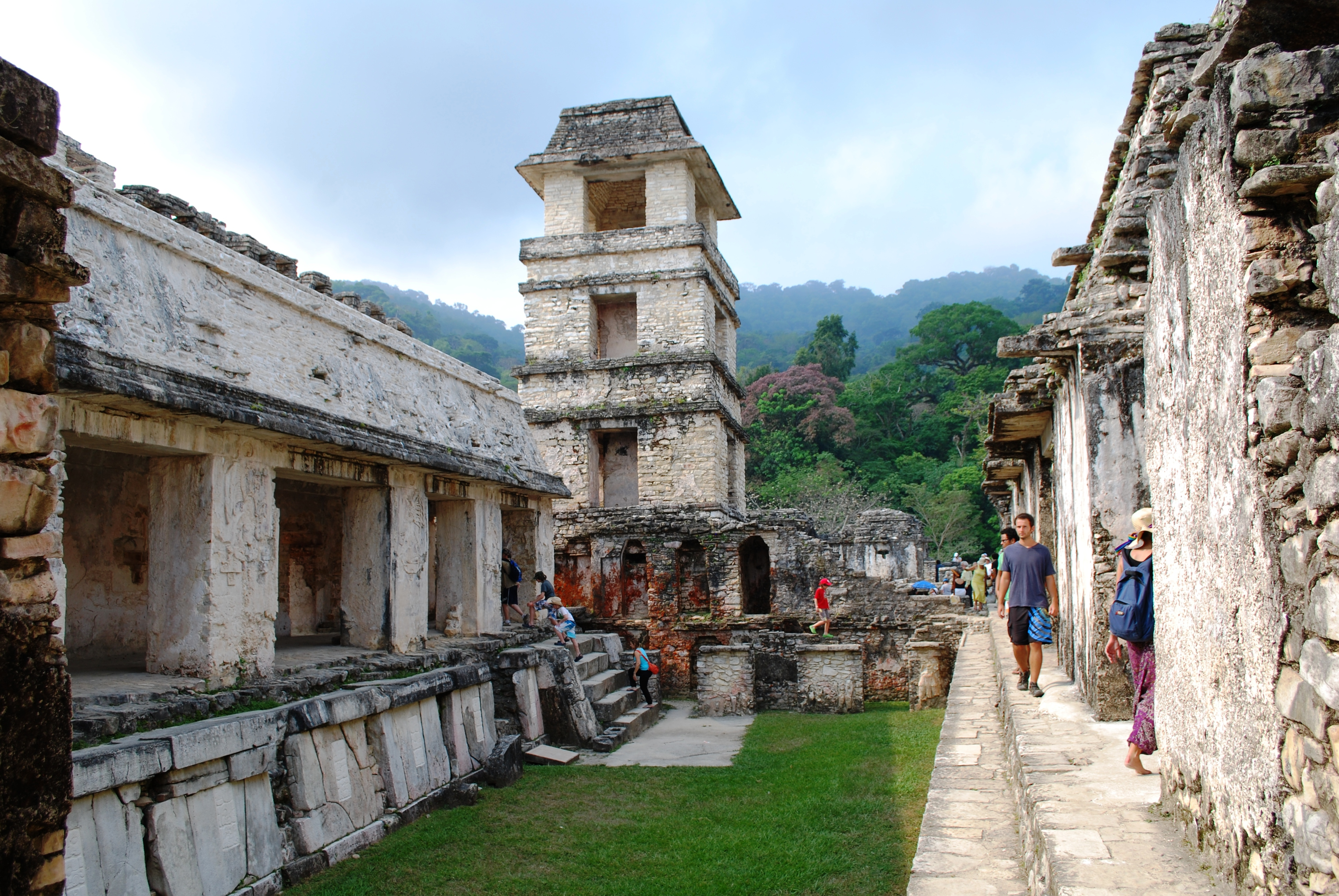 Tower at the Palace at Palenque, Chiapas, Mexico